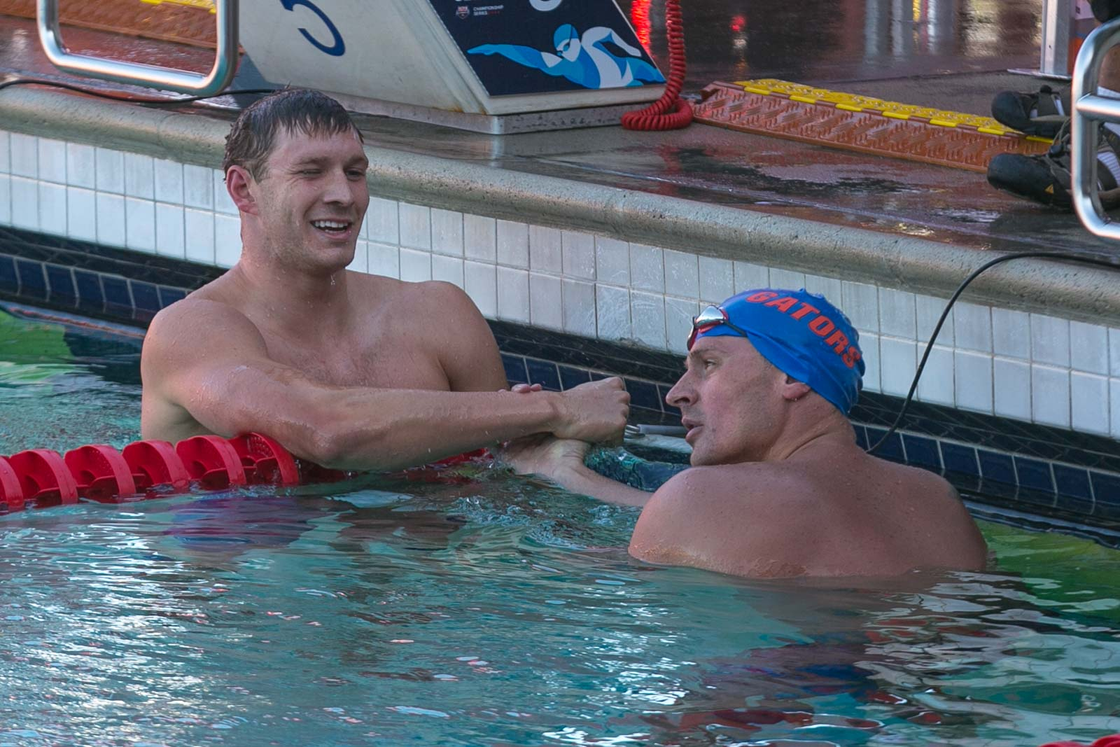 Ryan Murphy & Ryan Lochte after 200 backstroke